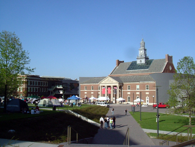 University of Cincinnati Worldfest, 2006.